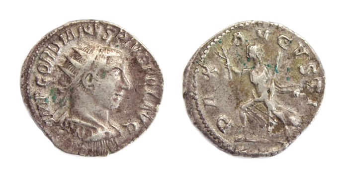 Roman AR Antoninianus Gordian III, Antioch mint 243-244 AD (RIC 214, RSC 179(a)). Obverse: Radiate draped bust right / IMP GORDIANVS PIVS FEL AVG. Reverse: Pax advancing left with branch and scepter / PAX AVGVSTI.